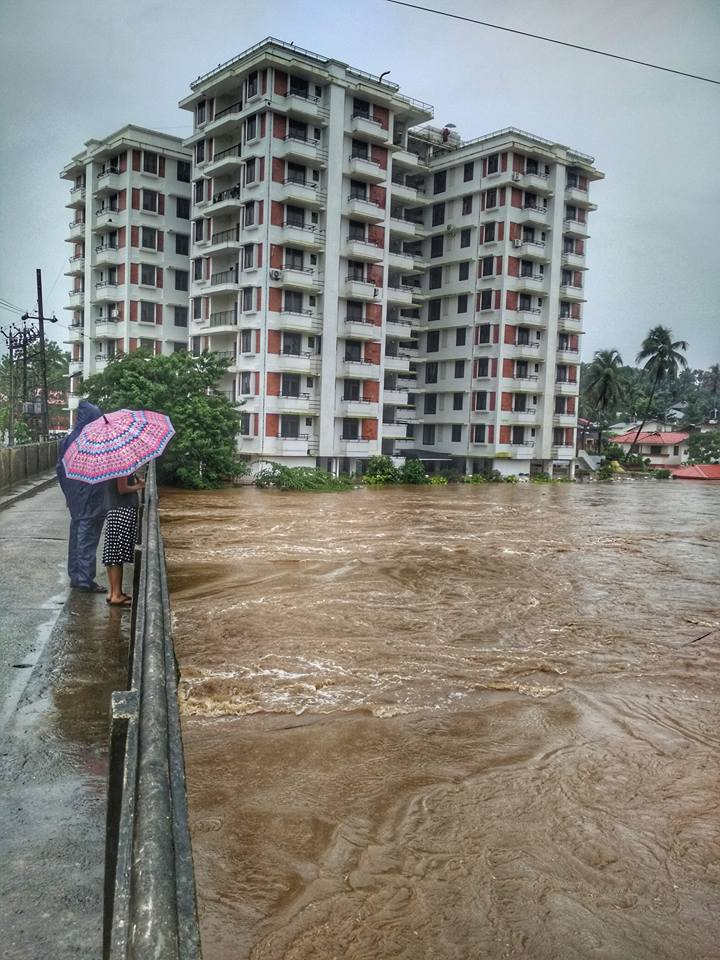 Kerala flood 2018